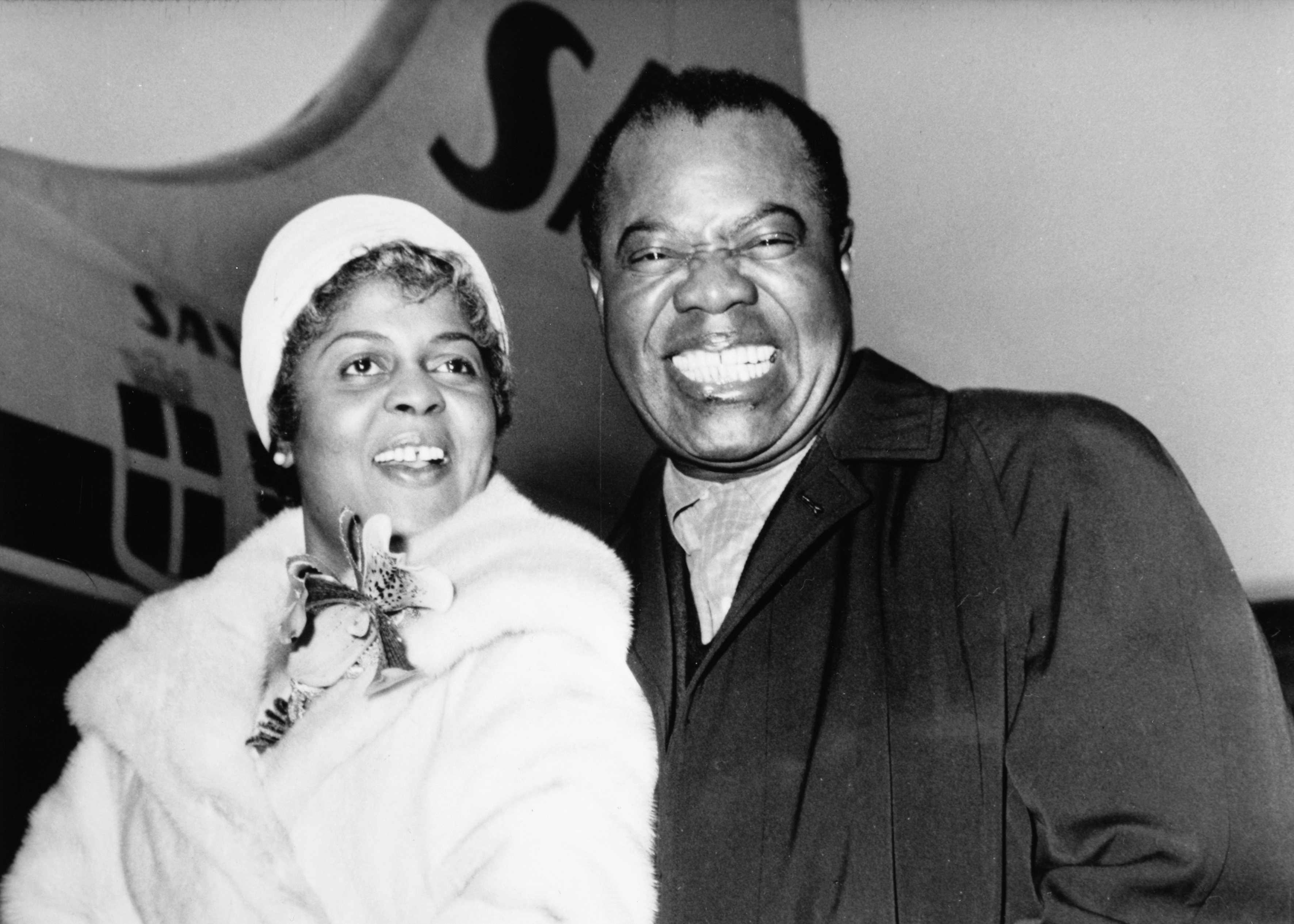 Lucille Wilson and Louis Armstrong